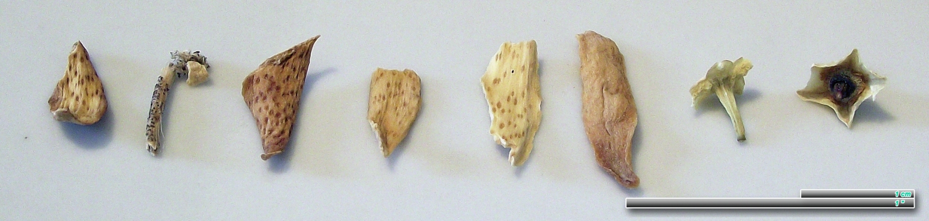 dried Citrus aurantium, "bitter orange", also known as Seville orange, sour orange, bigarade orange, and marmalade orange; Flower